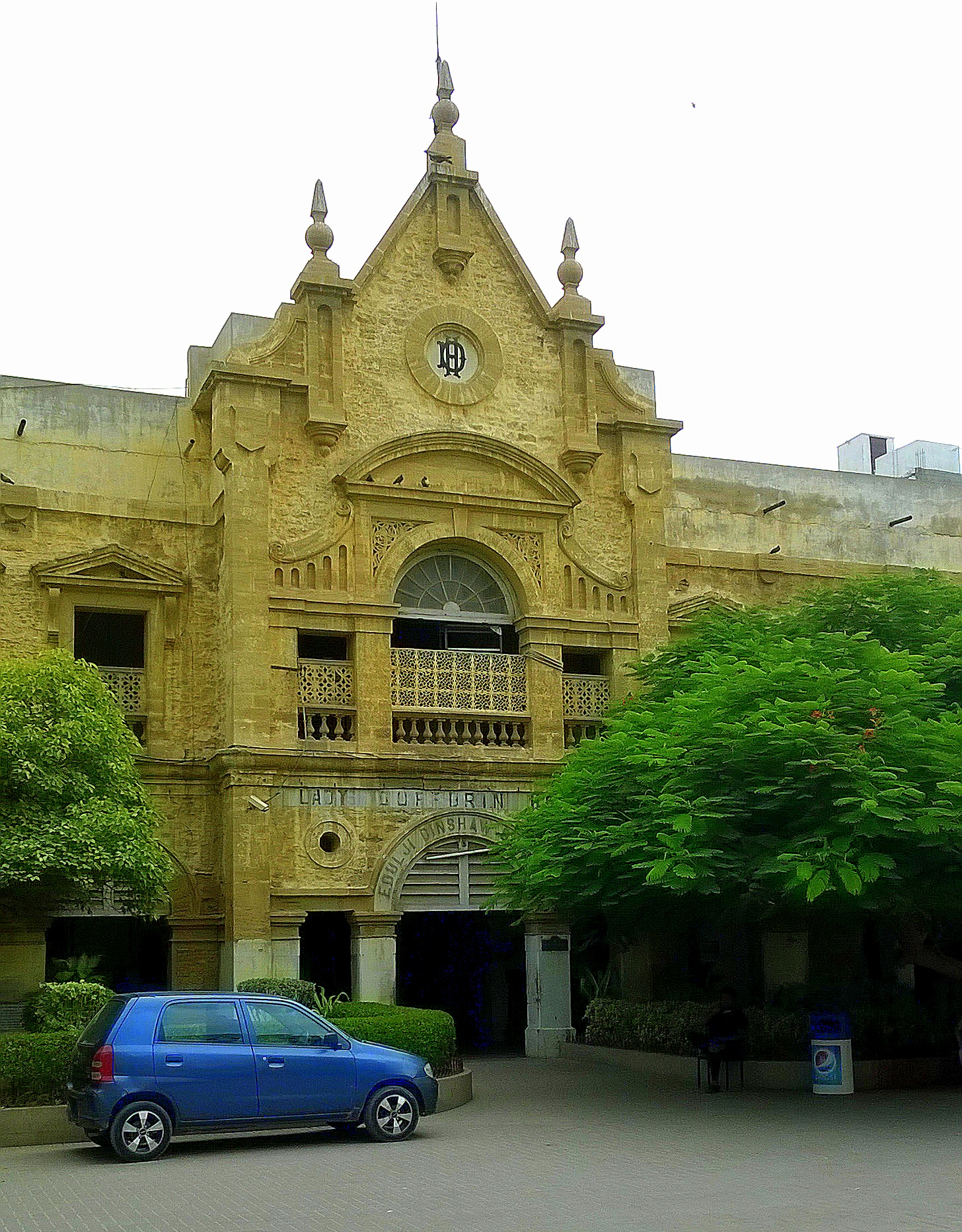 Lady Dufferin Hospital: Edulji Dinshaw Building This is a photo of a monument in Pakistan identified as the SD-P-112